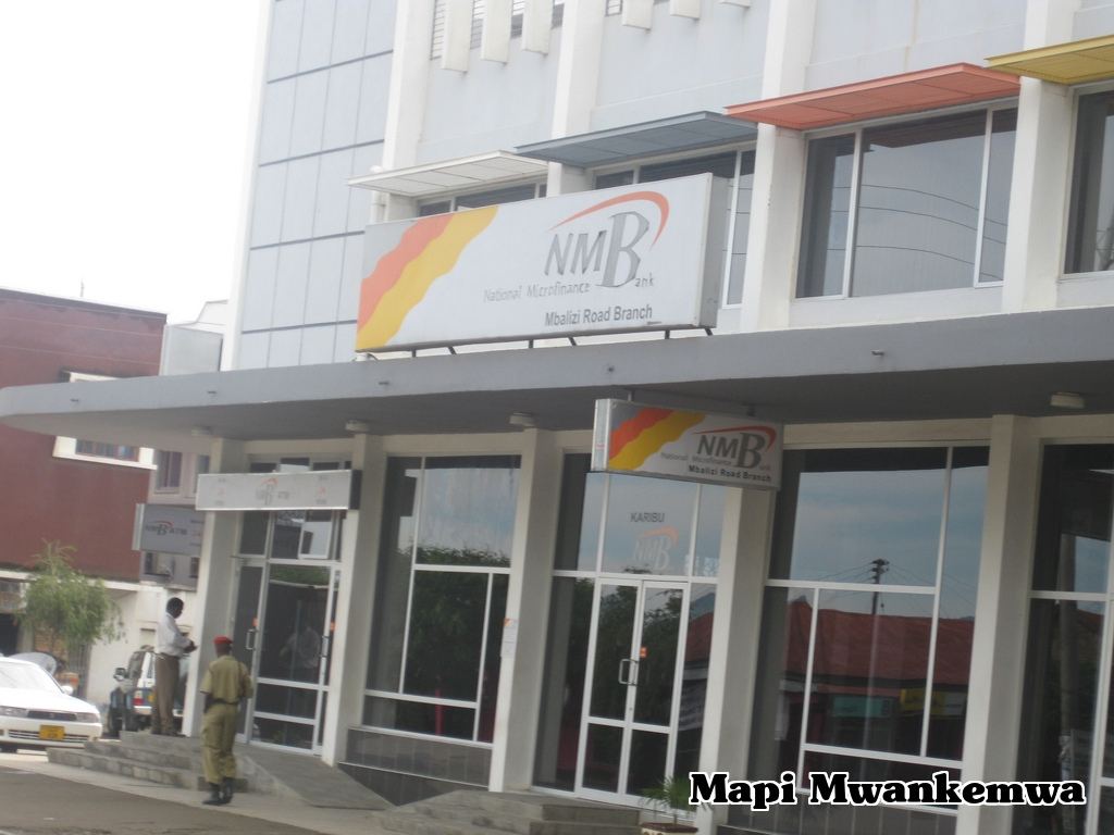 National Microfinance Bank (NMB) in Mbeya, Tanzania